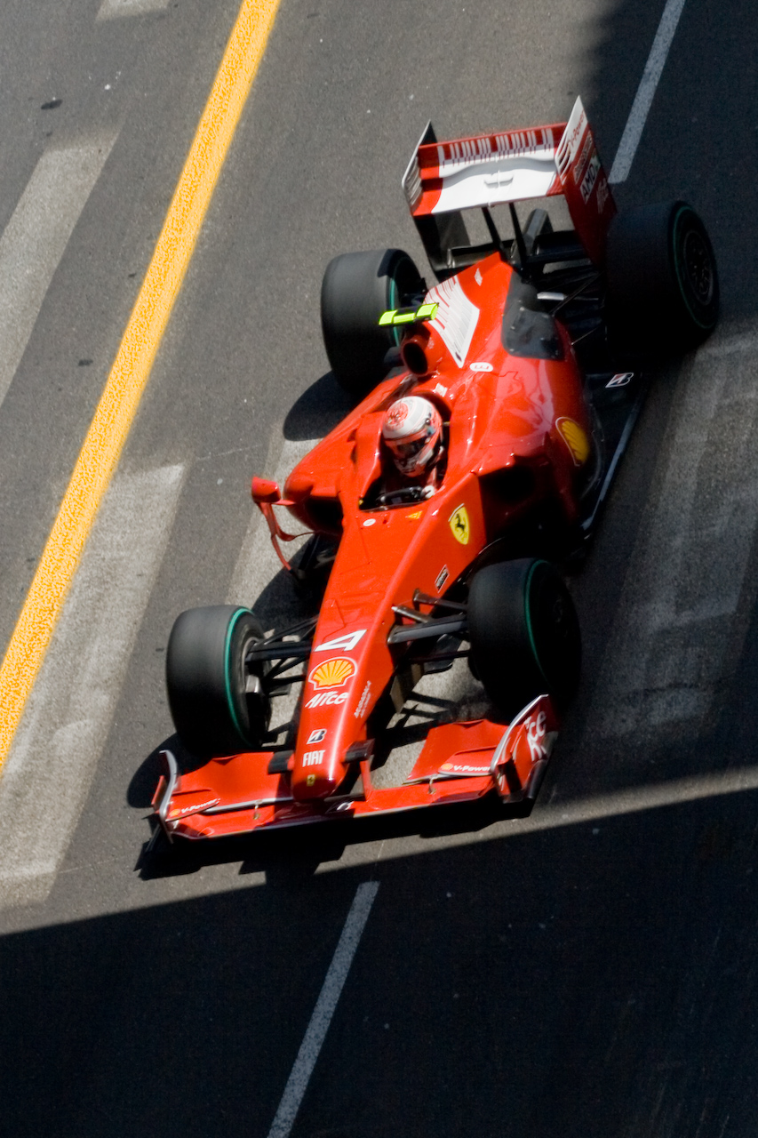 Kimi Räikkönen at the 2009 Monaco Grand Prix, Monte Carlo, Monaco.